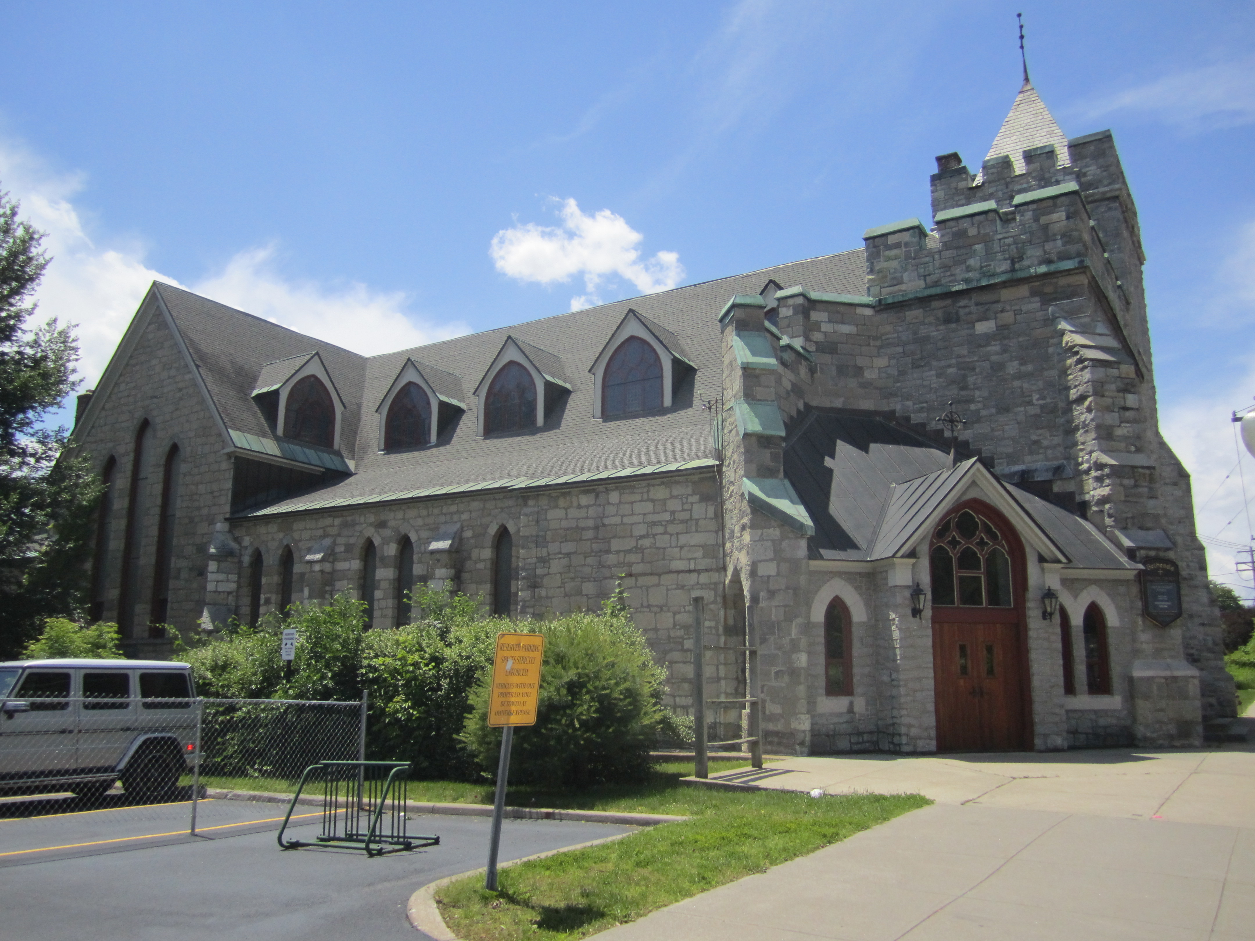 Bethesda Episcopal Church, Saratoga Springs New York. Original design by Richard Upjohn, 1841. Additions by A. Page Brown 1887.